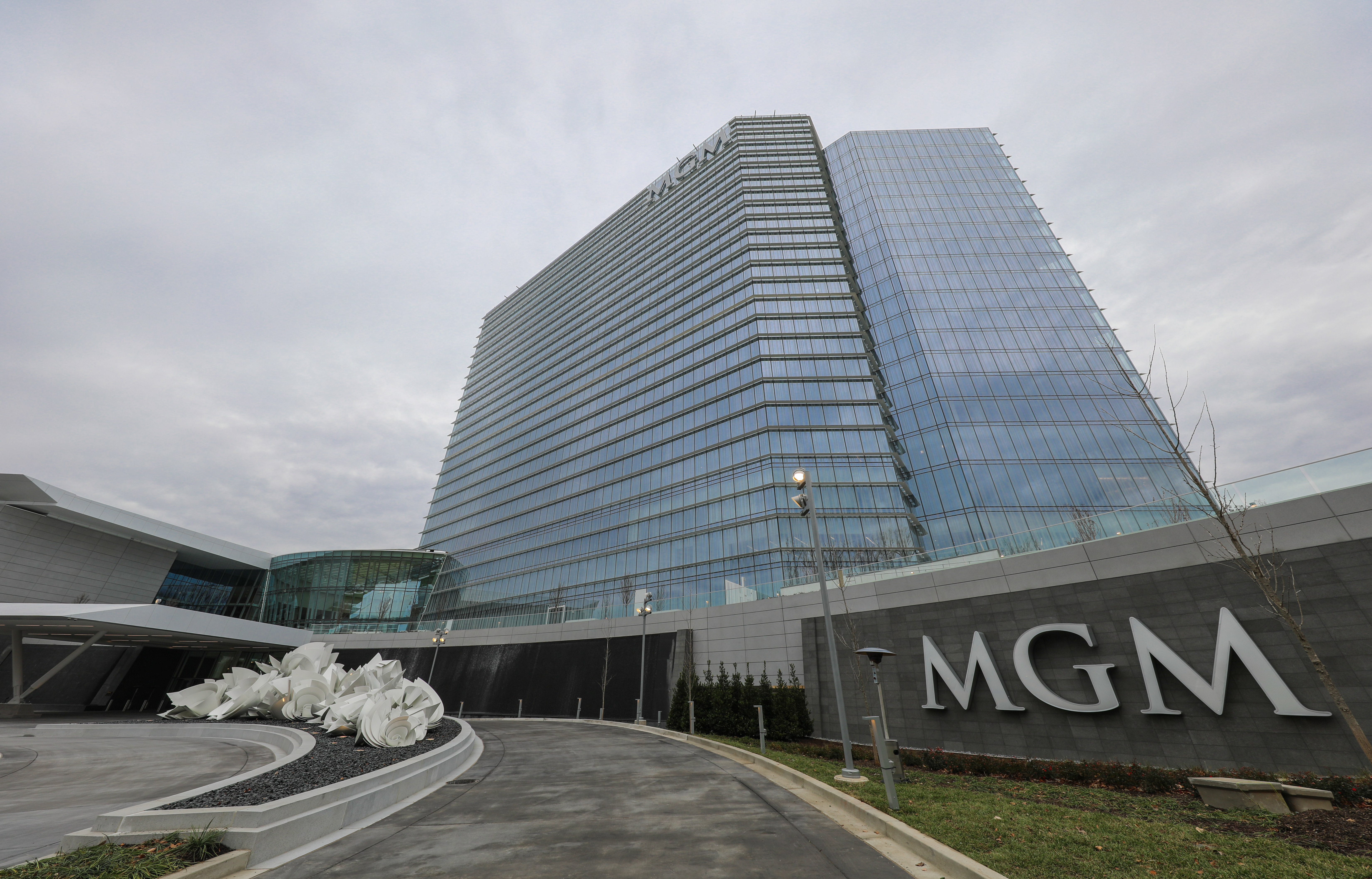 Governor speaks at The MGM Grand Opening by Steve Kwak at MGM National Harbor Hotel Lobby